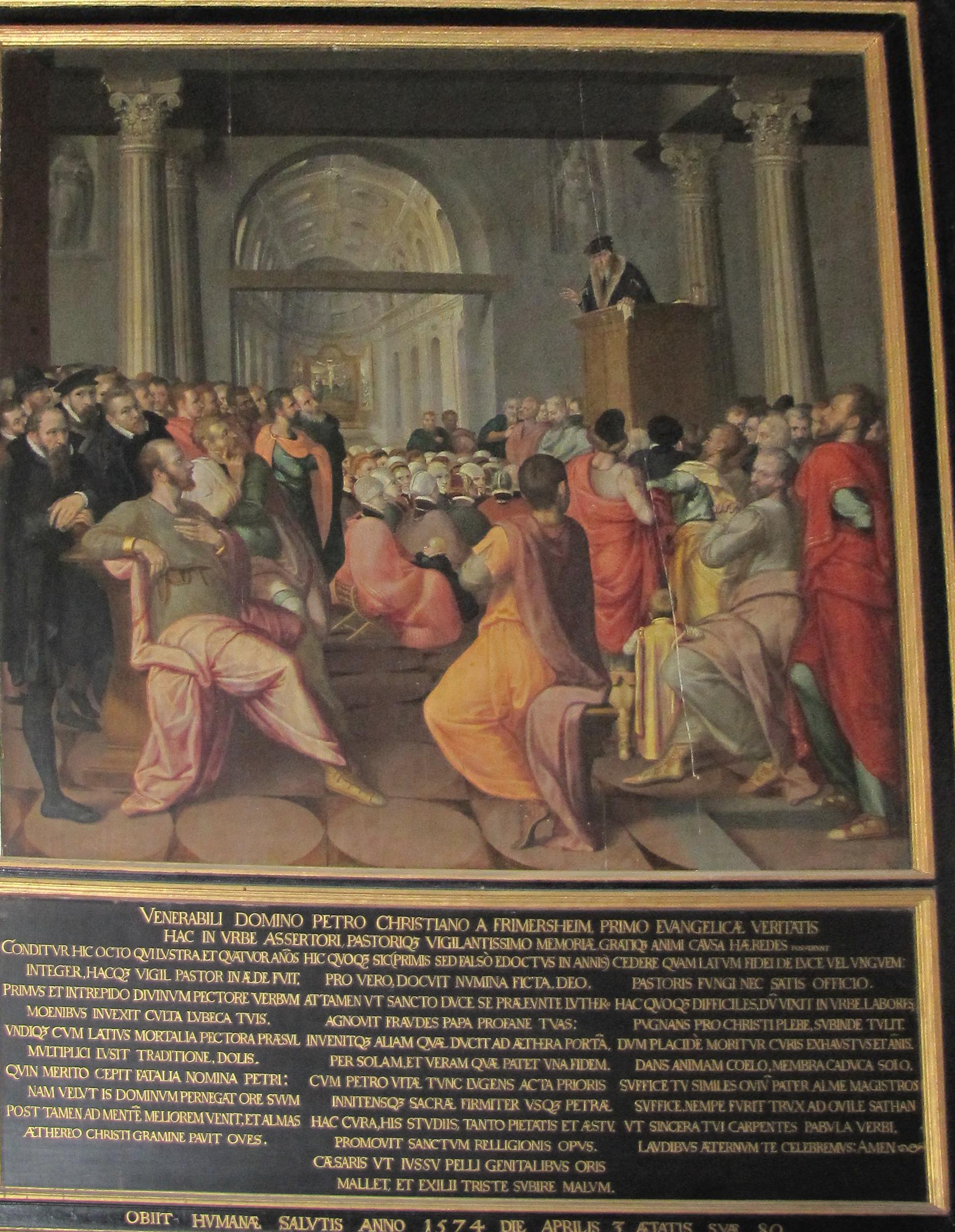 Epitaph for Peter Christian von Friemersheim in St. Jakobi, Lübeck, 1574